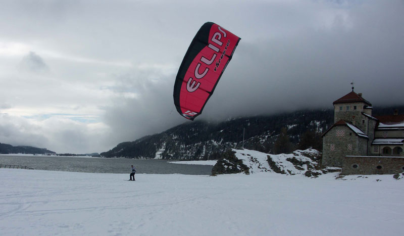 Chris Cousins kiteboarding in Switerland.